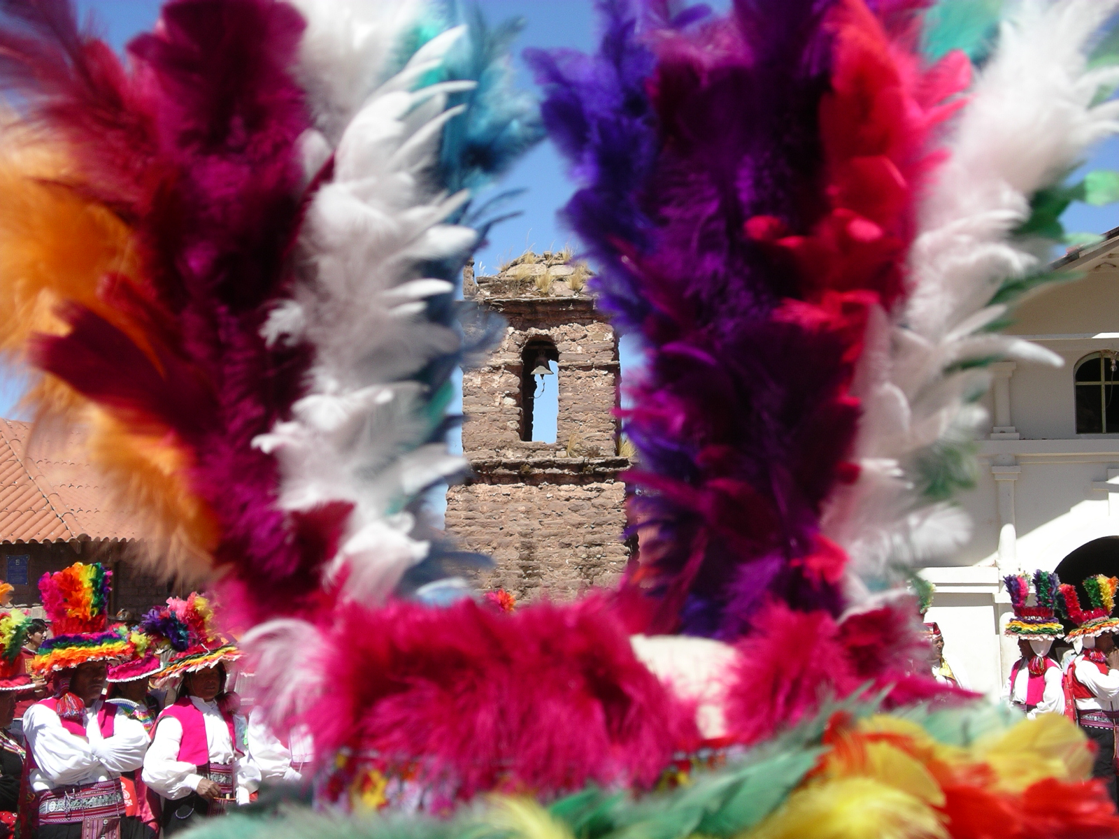 On 25th of July the Island of Taquile is celebrating its Saint. Men and women wear traditional, colourful cloths.